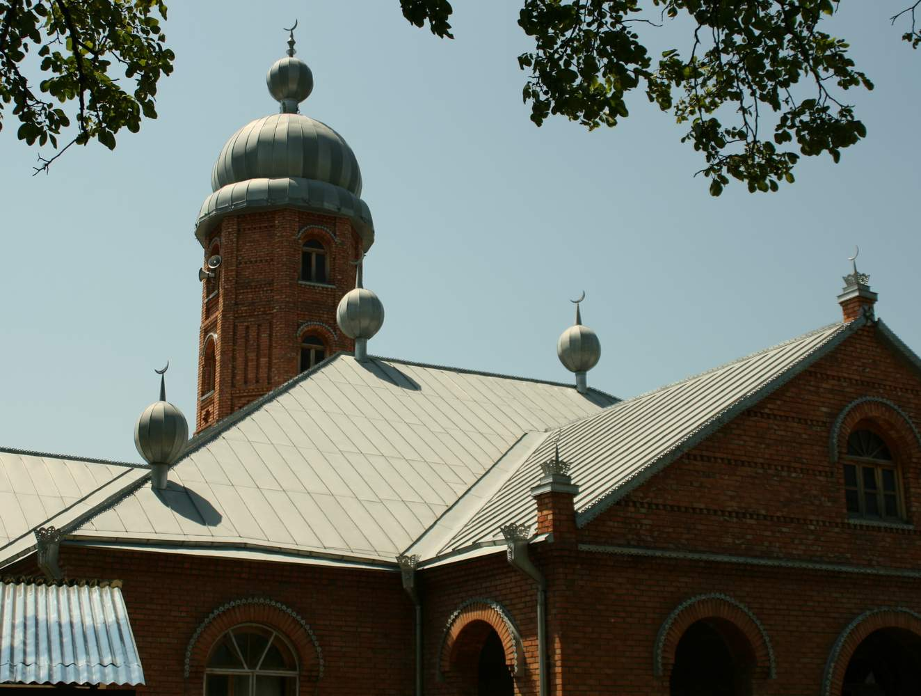 Mosque in Duisi (Georgia, Pankisis valley)